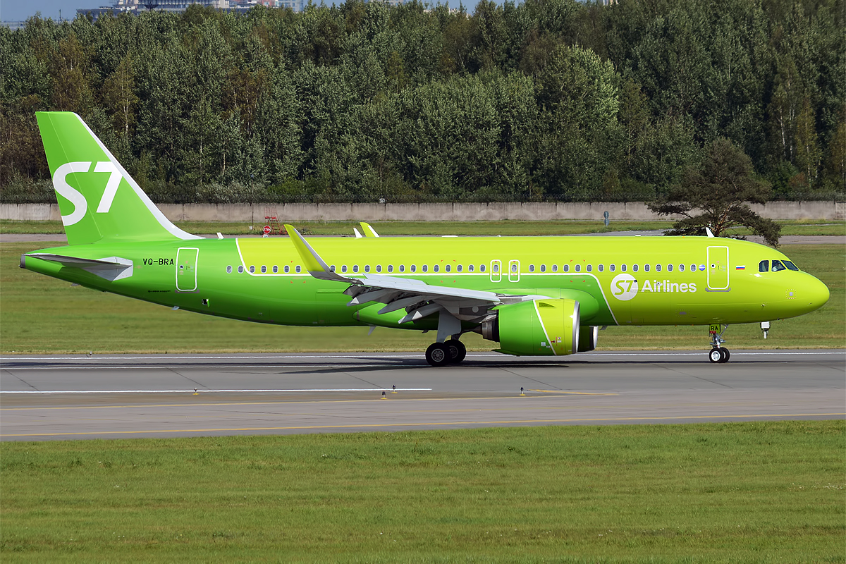 S7 Airlines, VQ-BRA, Airbus A320-271N